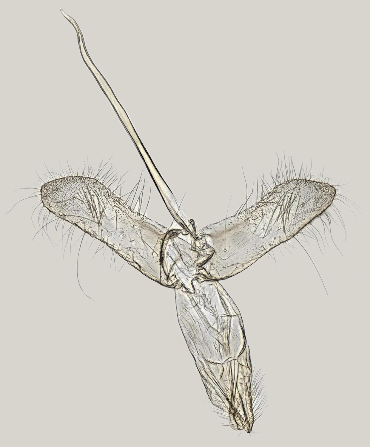 Monopis crocicapitella, Birmingham, England, 2014 3 Male genitalia Diagnostic obviella Valvae of male genitalia shorter and broader with a more rounded apex, crocicapitella longer and narrower with a more angular apex obviella length/breadth of valva 2.1-2.3 crocicapitella length/breadth of valva 2.8-2.9 obviella Aedeagus blob-ended at apex more tapered crocicapitella Aedeagus apex tapered